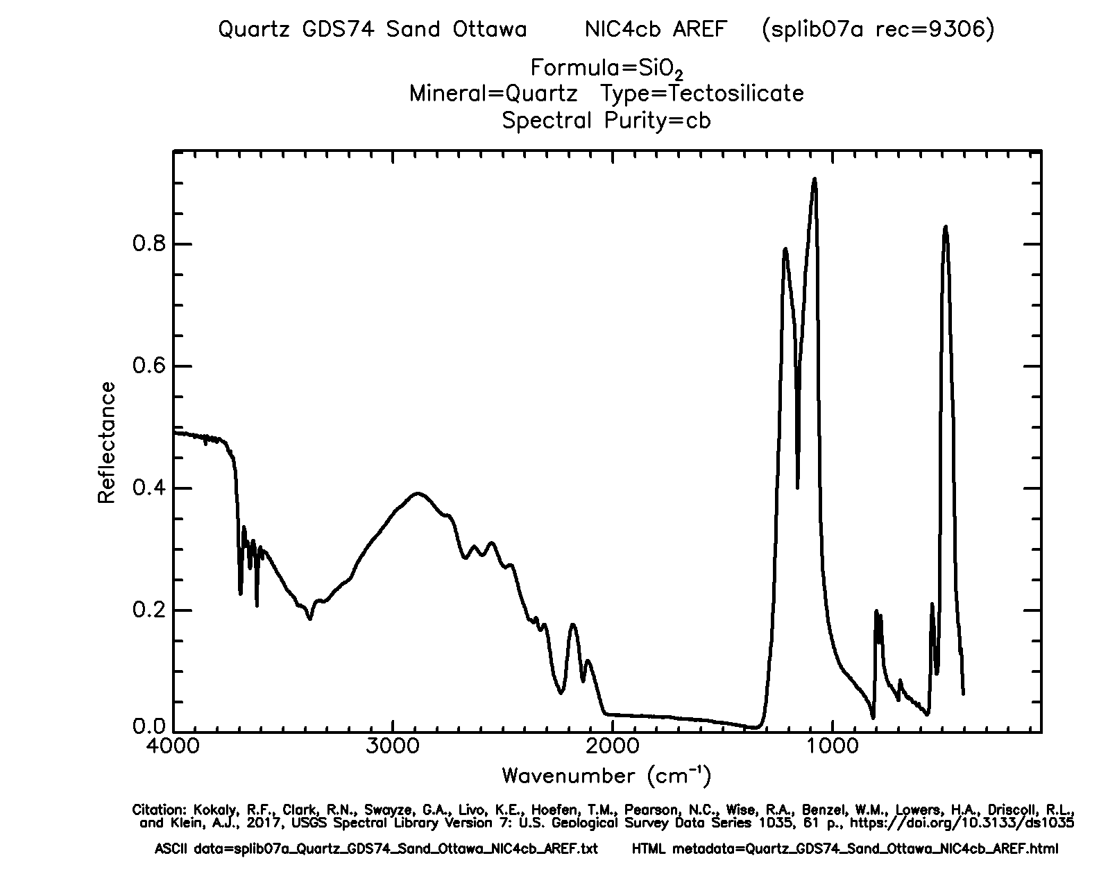 A sample of mineral quartz spectral reflectance curve. Credit: U.S. Geological Survey Department of the Interior/USGS